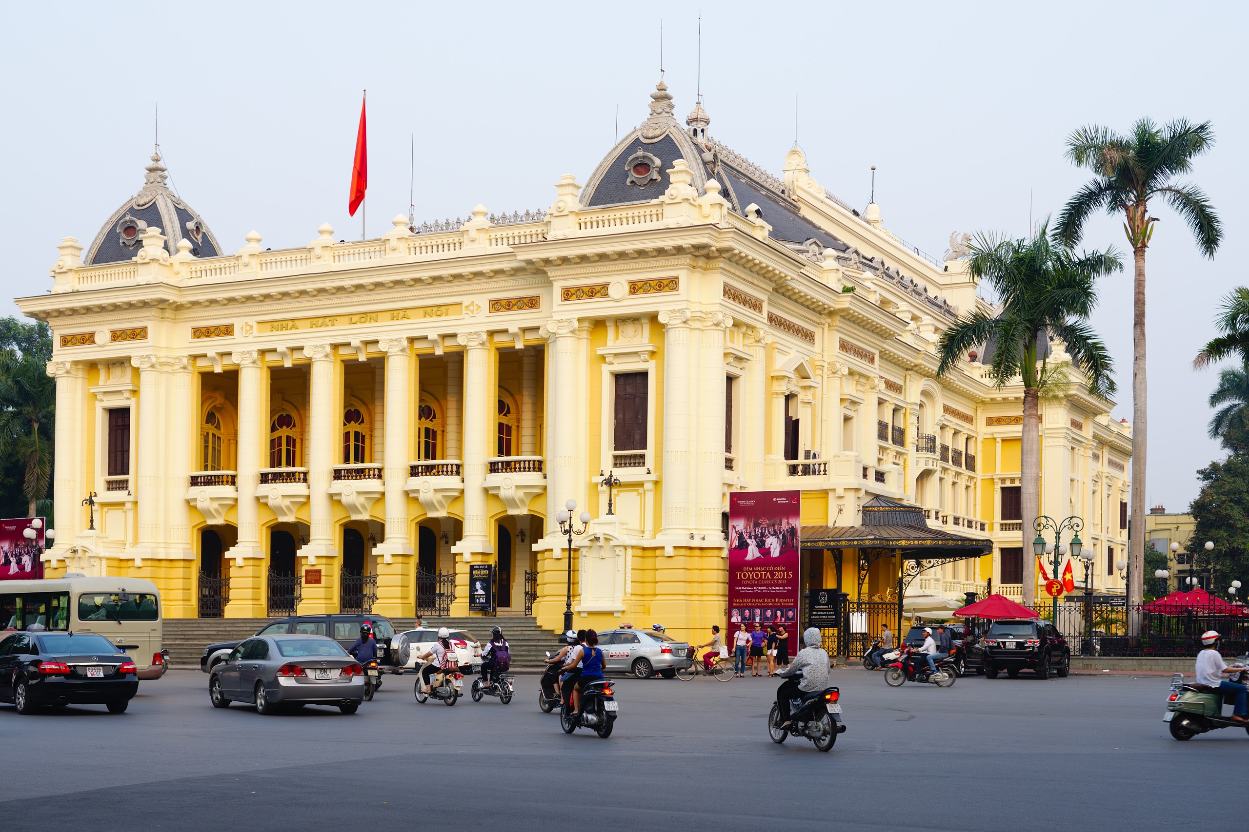 Hanoi opera house. Made as a copy of the Opera Garnier in Paris